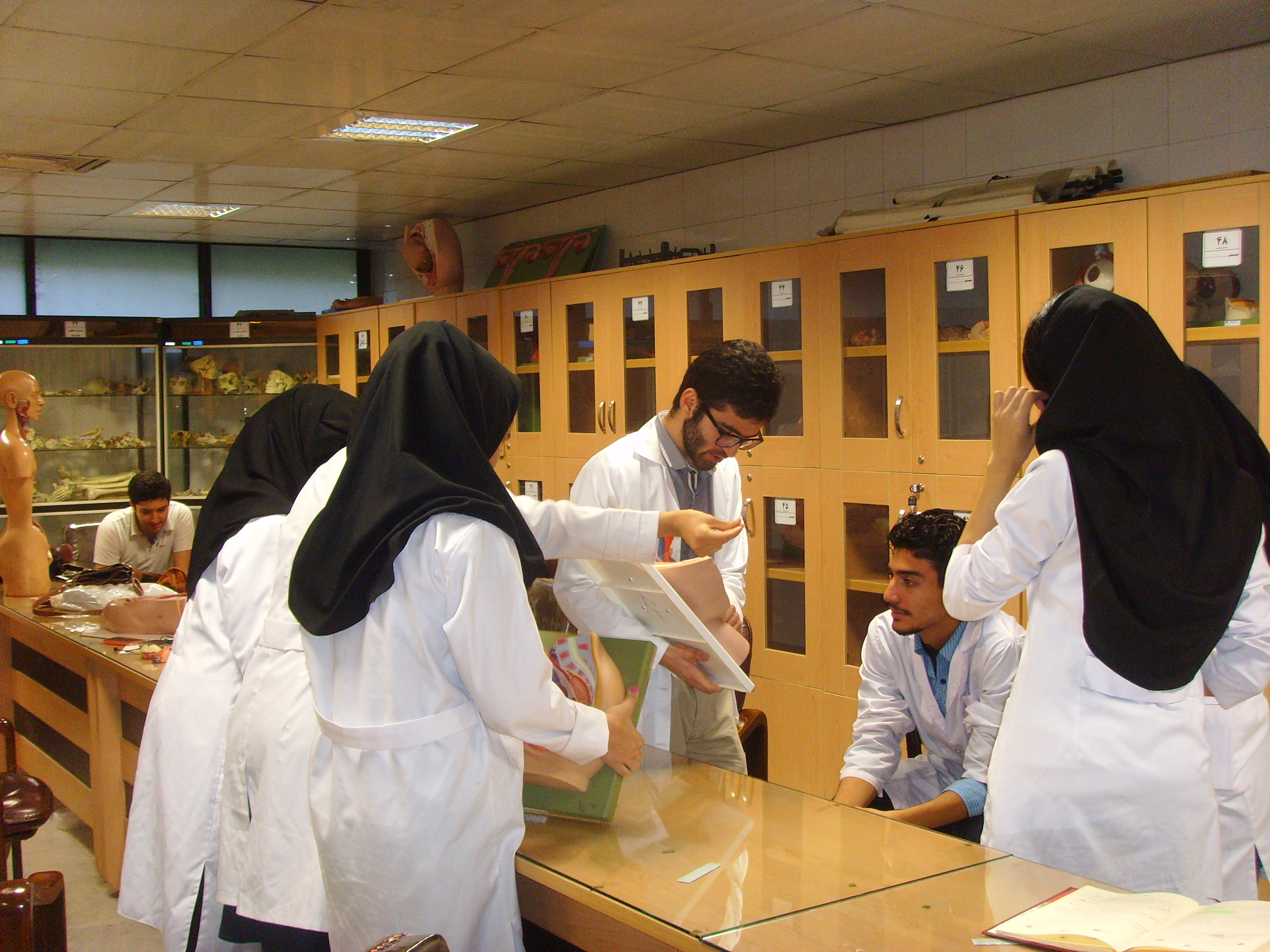 saloon of moulage, department of biology and anatomical sciences